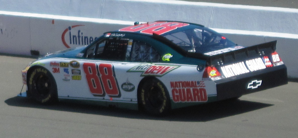 Dale Earnhardt Jr.'s No. 88 Amp Energy/National Guard Chevrolet at Infineon Raceway in 2010